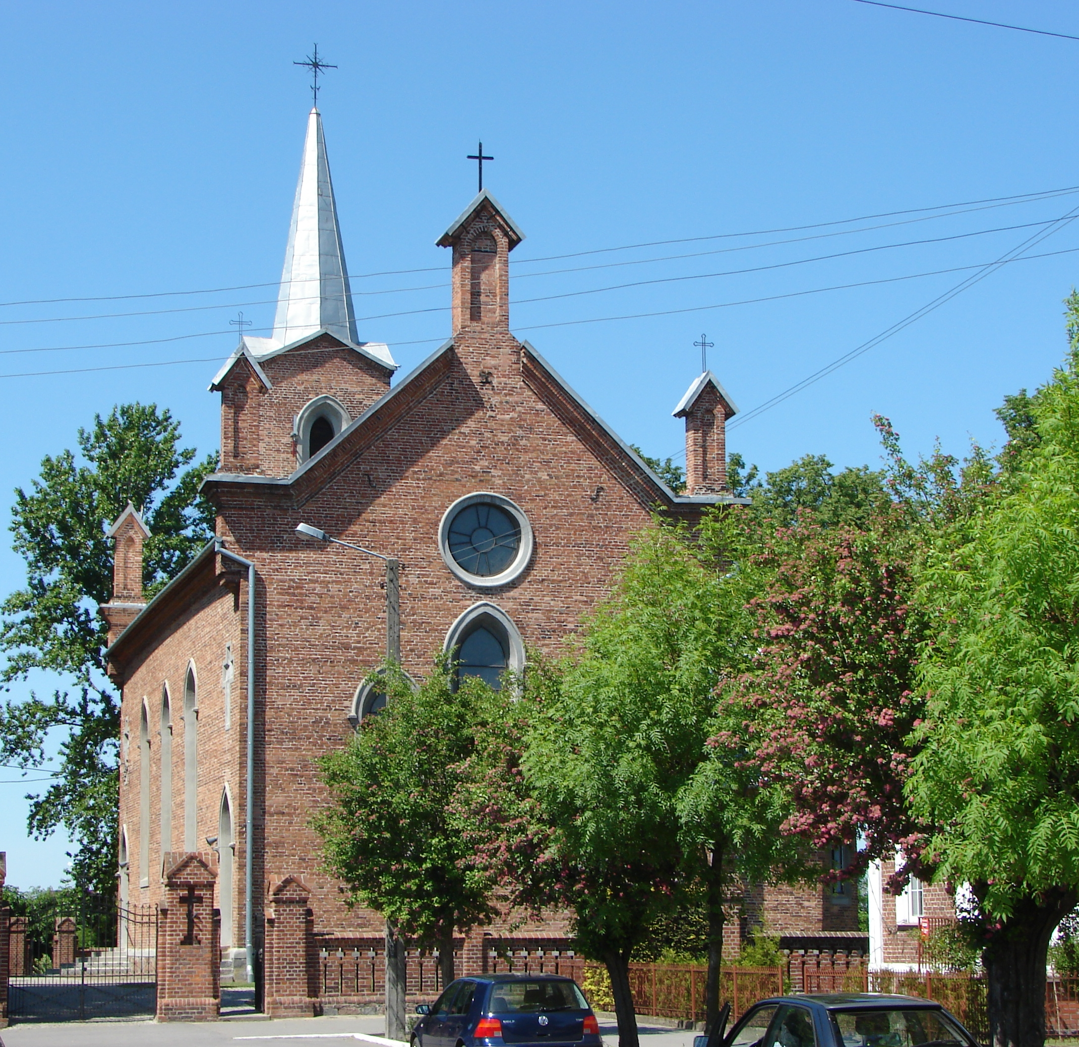 Osięciny, Radziejów County. Parish church.